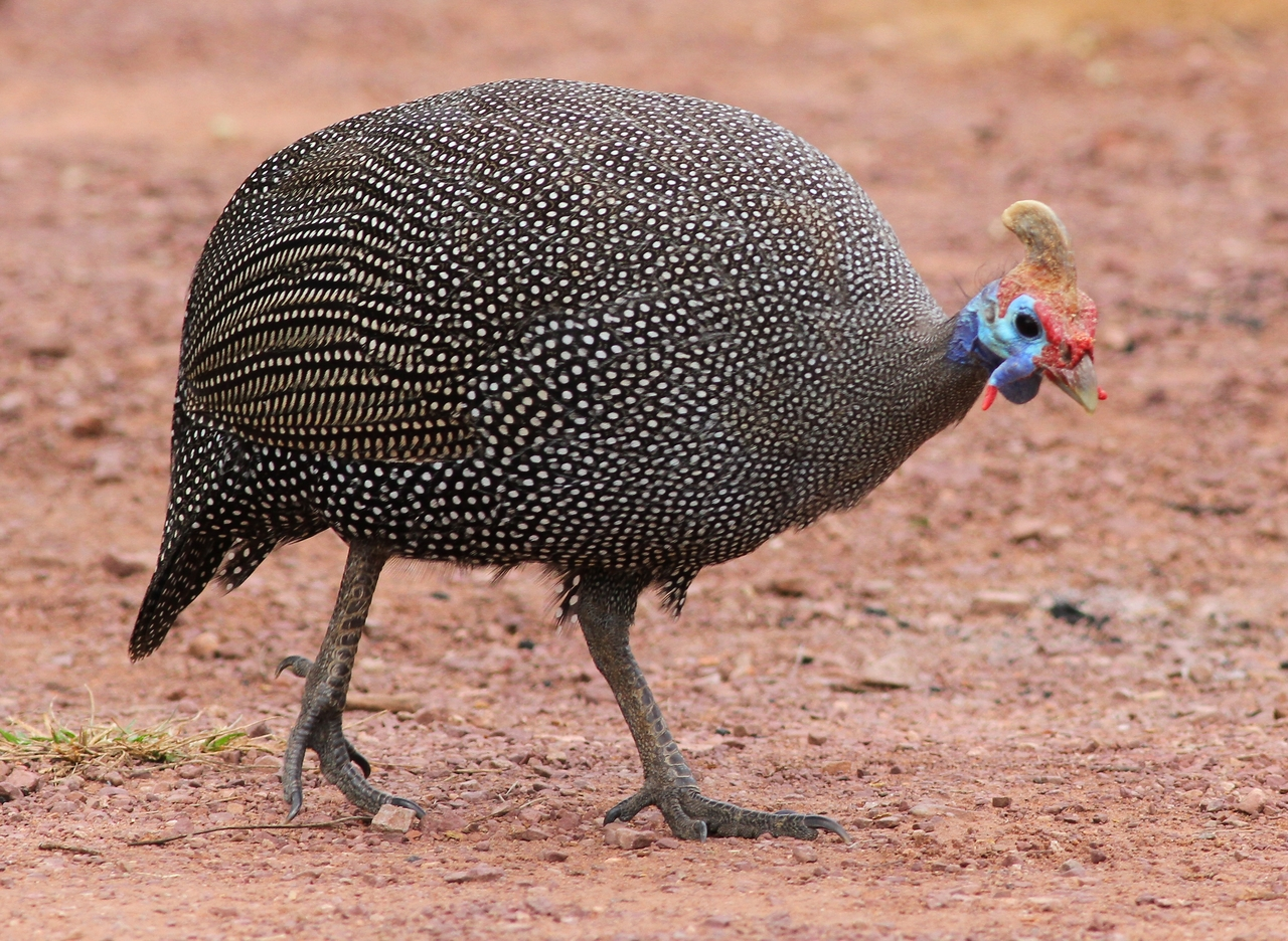 Helmeted Guineafowl, Numida meleagris at Marakele National Park, South Africa